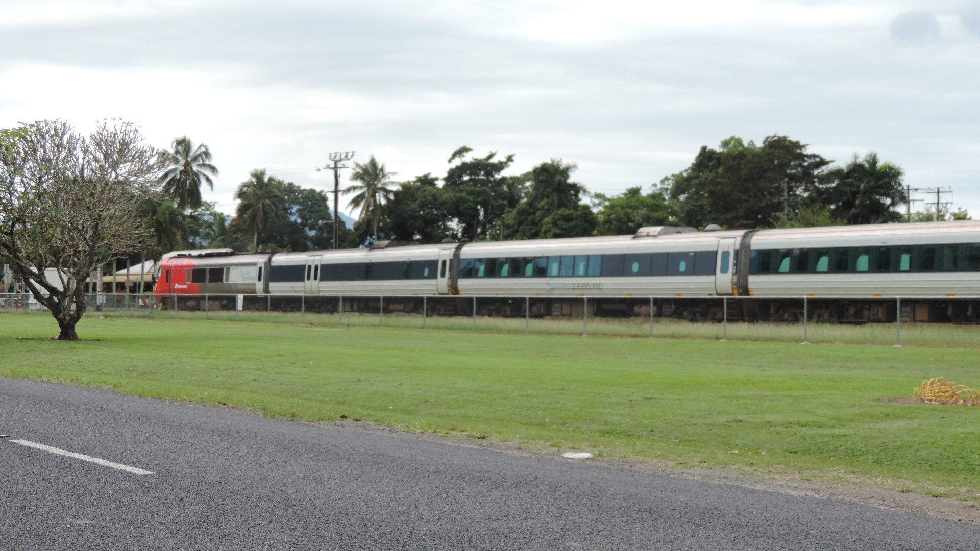 Spirit of Queensland train at Gordonvale, 2016